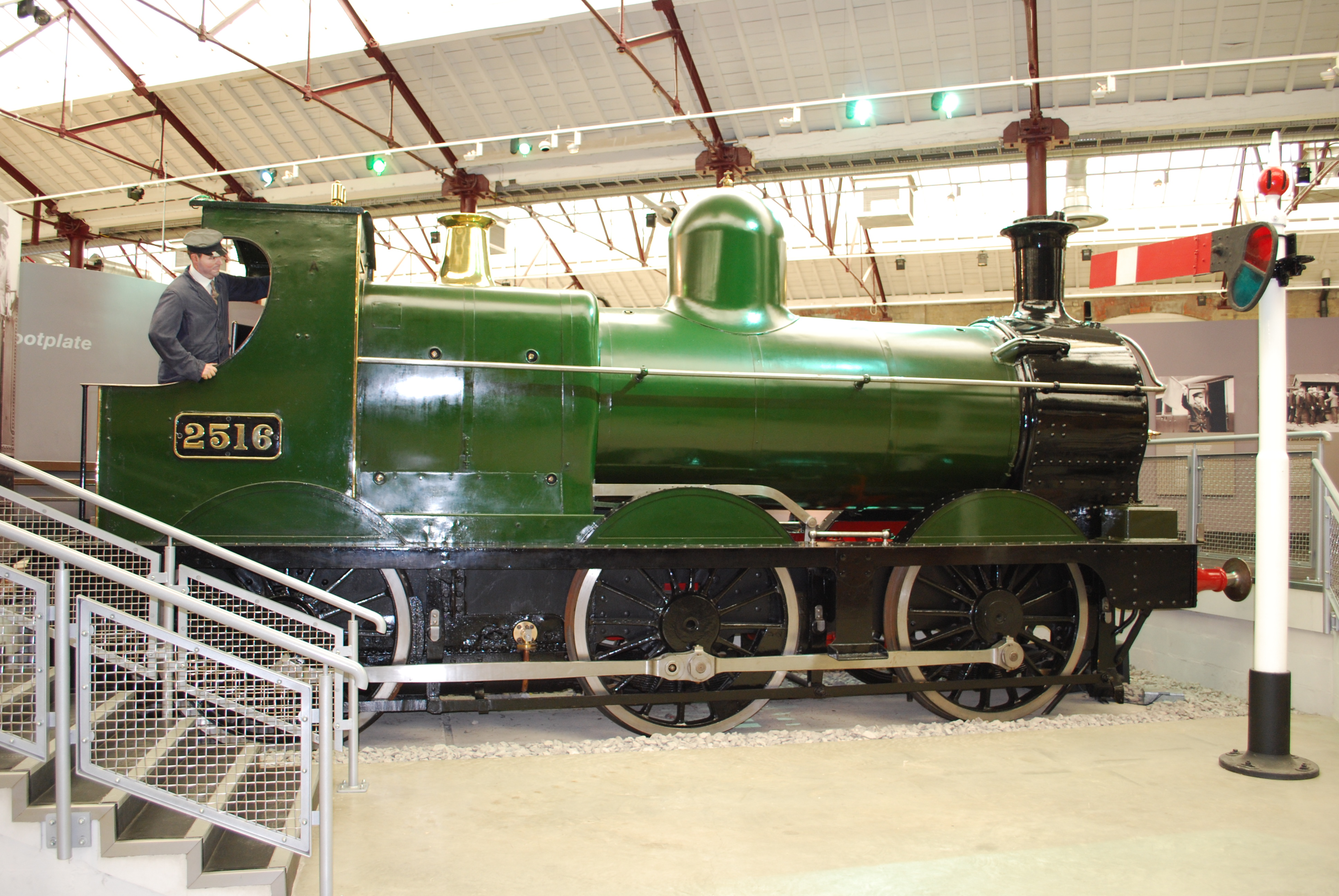 GWR "Dean Goods" 23XX 0-6-0 No.2516 in 1917 unlined green livery at Swindon Steam Museum. Arguably the best all-round late Victorian 0-6-0 design. 07/09.